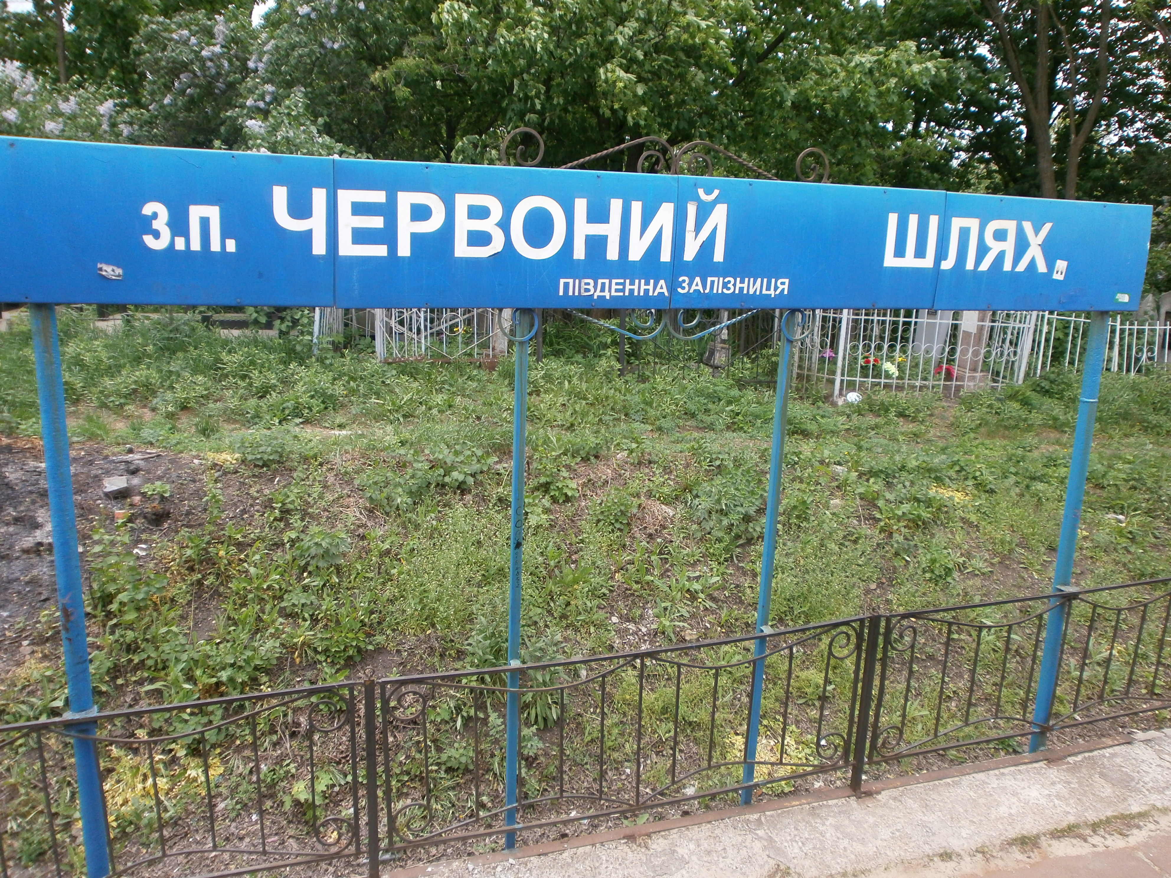 Fragment of Chervonyi Shliakh Railway Halt, Pivdenna Railway, Ukraine